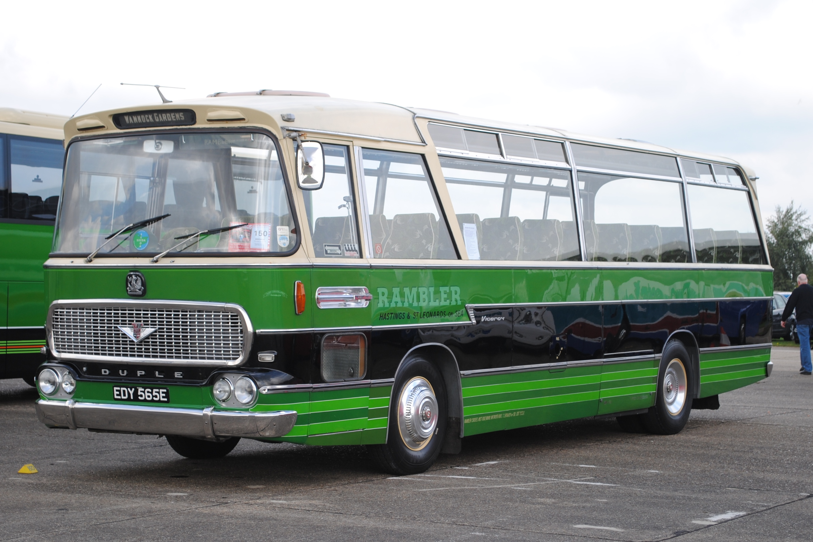 EDY 565E Bedford VAM14 Duple Viceroy seen at showbus rally, Duxford.